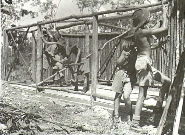 Soldiers from the Australian 43rd Infantry Battalion constructing a camp at Berry Springs, Northern Territory, November 1942